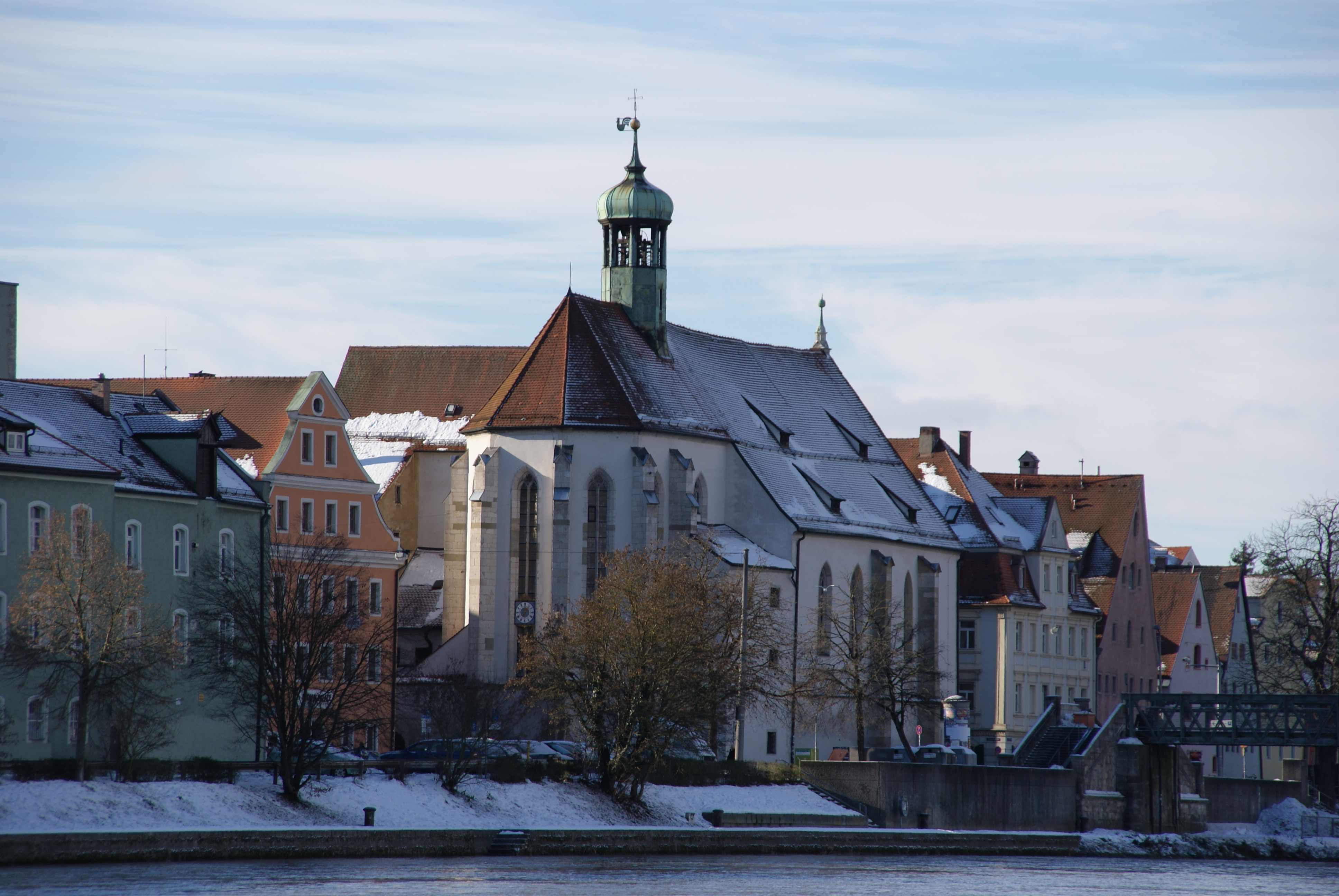 St. Oswald Church, Regensburg, Germany, built in the early 14th century, turned to baroque style in 1708. The church is situated at the river bank of the Danube.